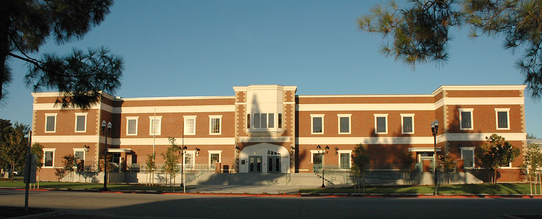 The George Flamson Middle School — replaced the original building which was condemned after the 2003 earthquake in Paso Robles, CA.